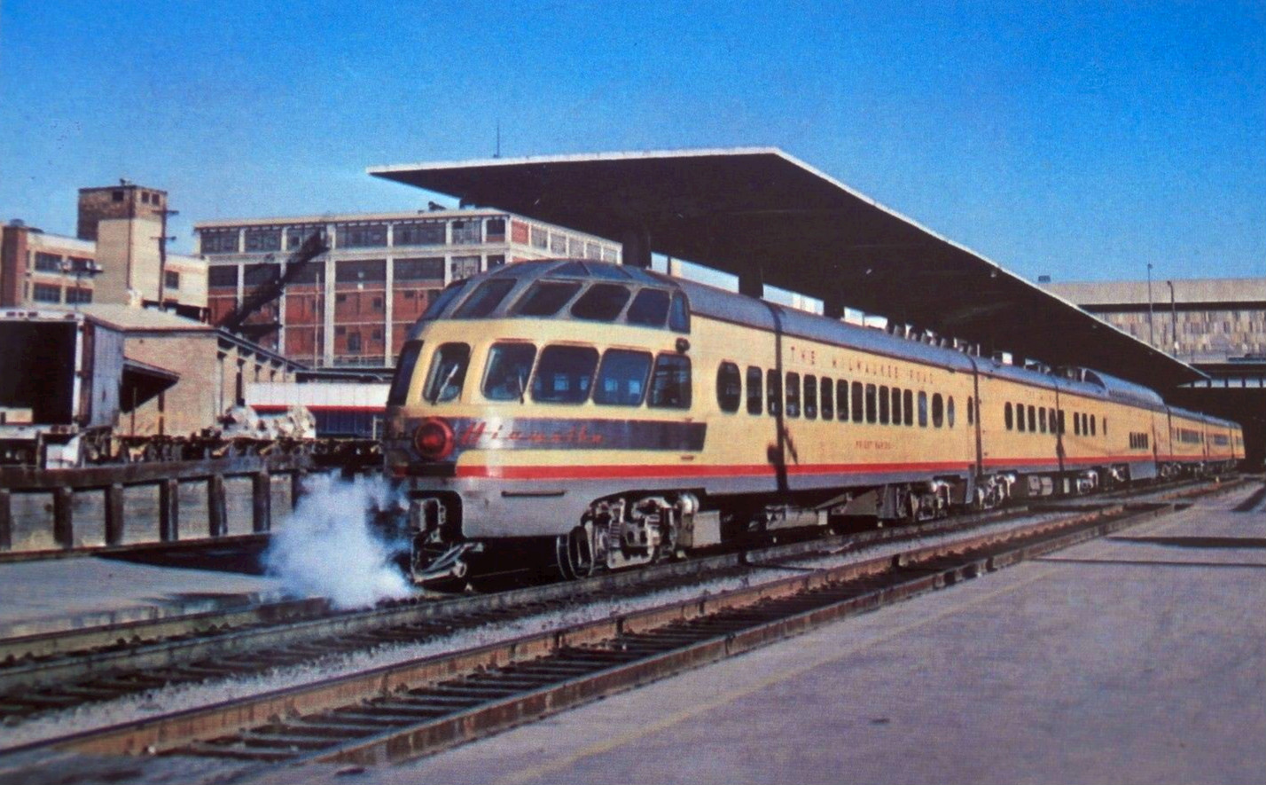 Photo of the Skytop observation/lounge cars that ran on the Hiawatha named trains of the Chicago, Milwaukee, and St. Paul Railroad. These cars went into service in 1948, and were painted in the Union Pacific color scheme in 1955. Pictured is the Priest Rapids car, #189, at the Milwaukee depot in Milwaukee in 1968. Two years later, these Skytop cars were scrapped.